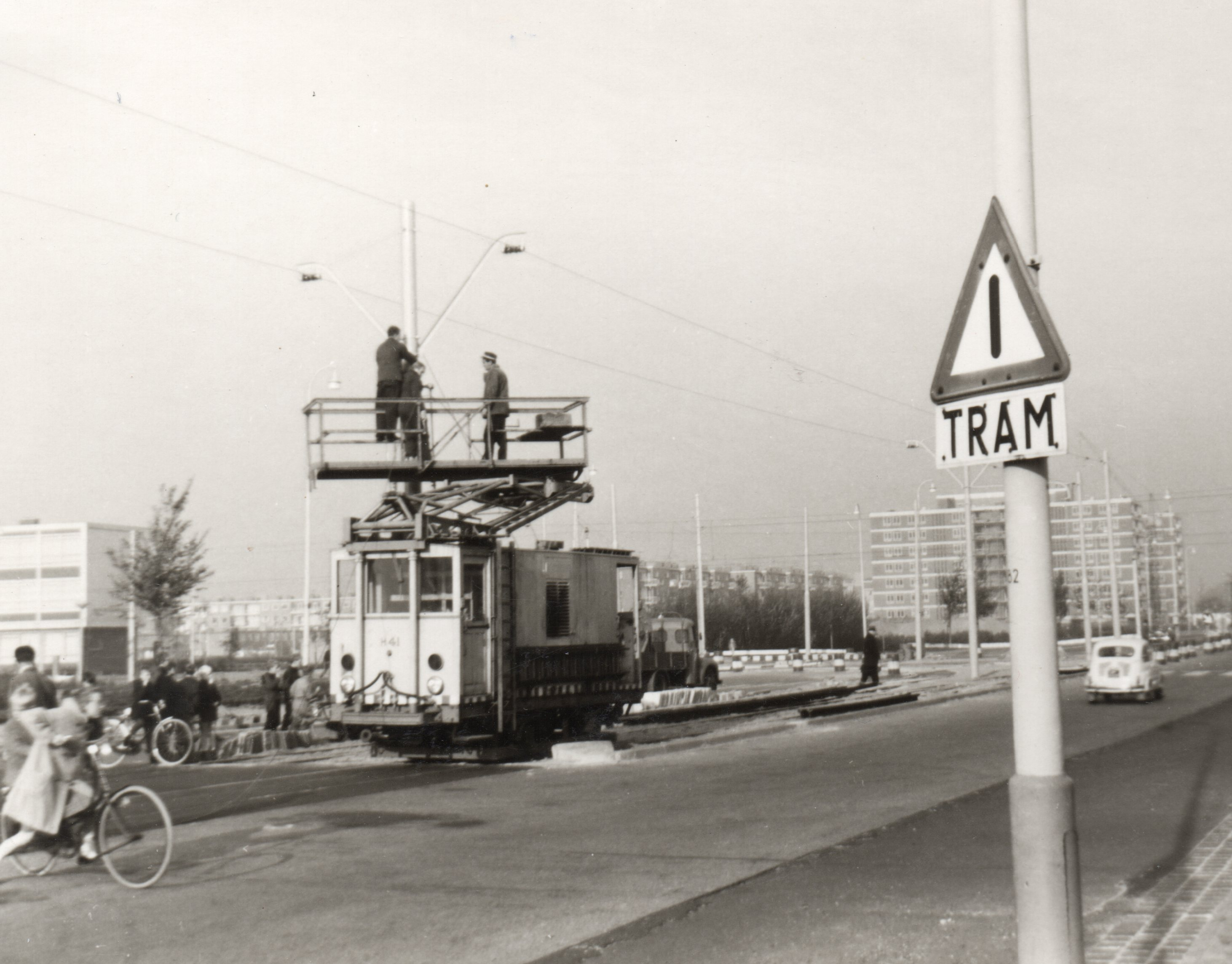 HTM dieselmotorwagen H41 bezig met bovenleidingmontage op de Hofzichtlaan in Den Haag, 1966